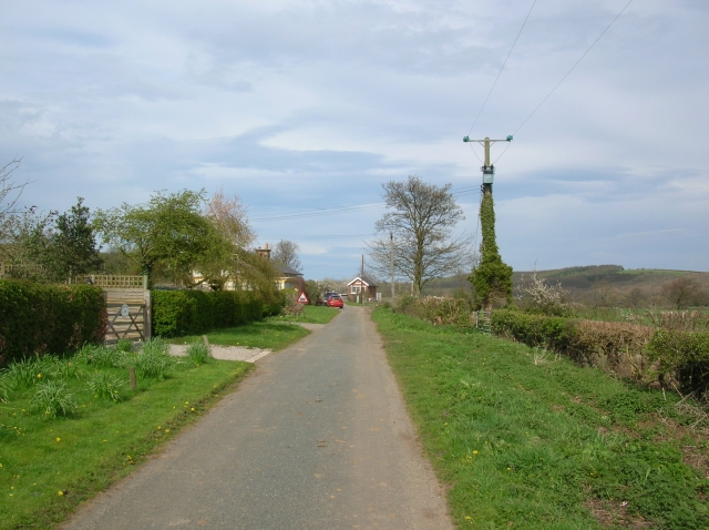 Approaching Howsham Crossing York to Scarborough railway line is just ahead. York is to the left.